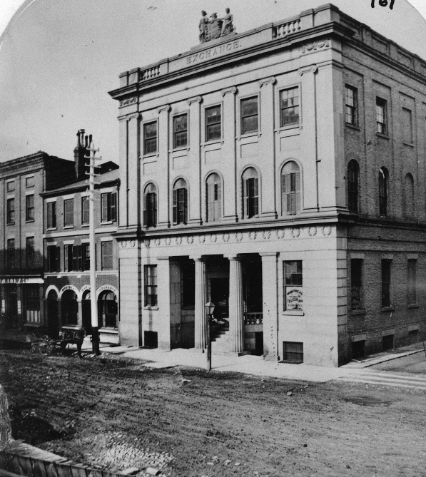 The first permanent headquarters of the Toronto Stock Exchange at 24 King Street East (Wellington Street East) in 1878.